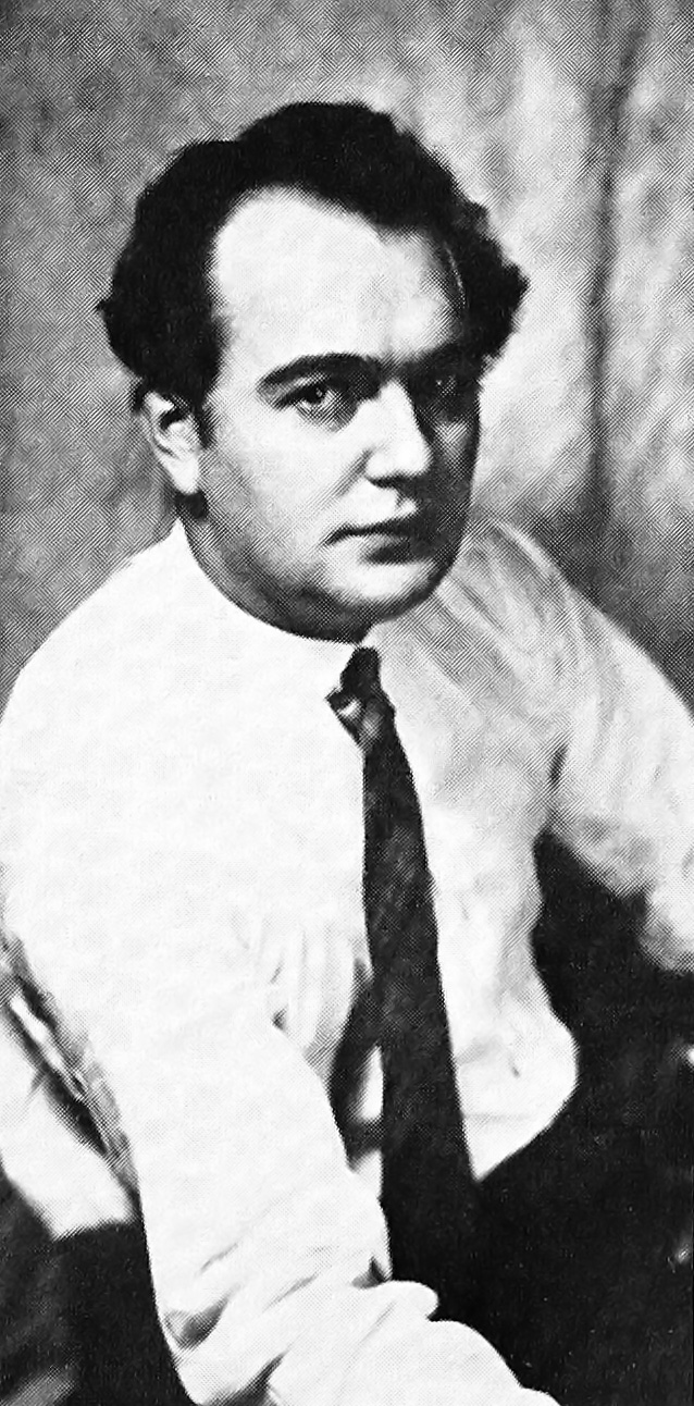 Photo portrait of German graphic designer and illustrator Heinz Schulz-Neudamm (1899–1969), circa 1929.